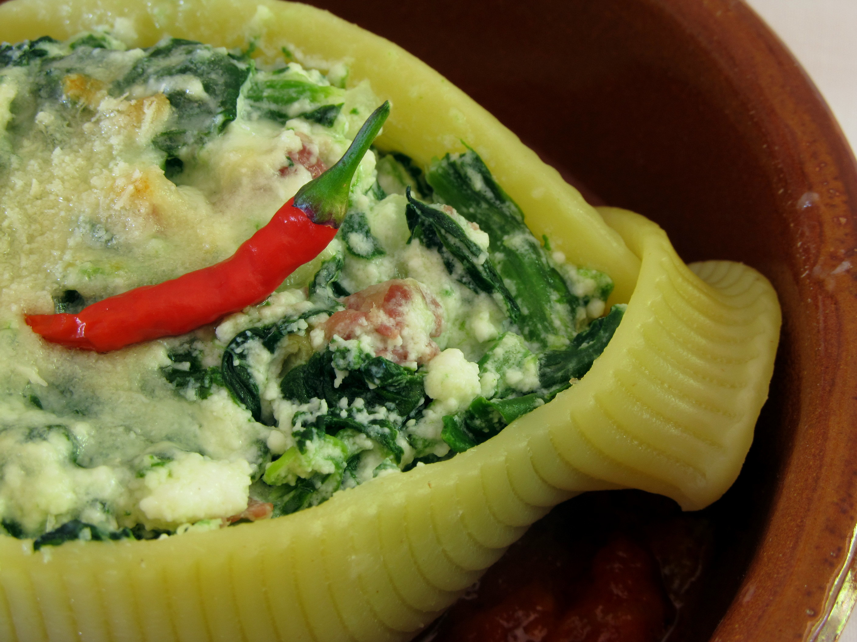 The caccavelle are a pasta typical (which can be filled) of Campania, in particular from Gragnano - Italy